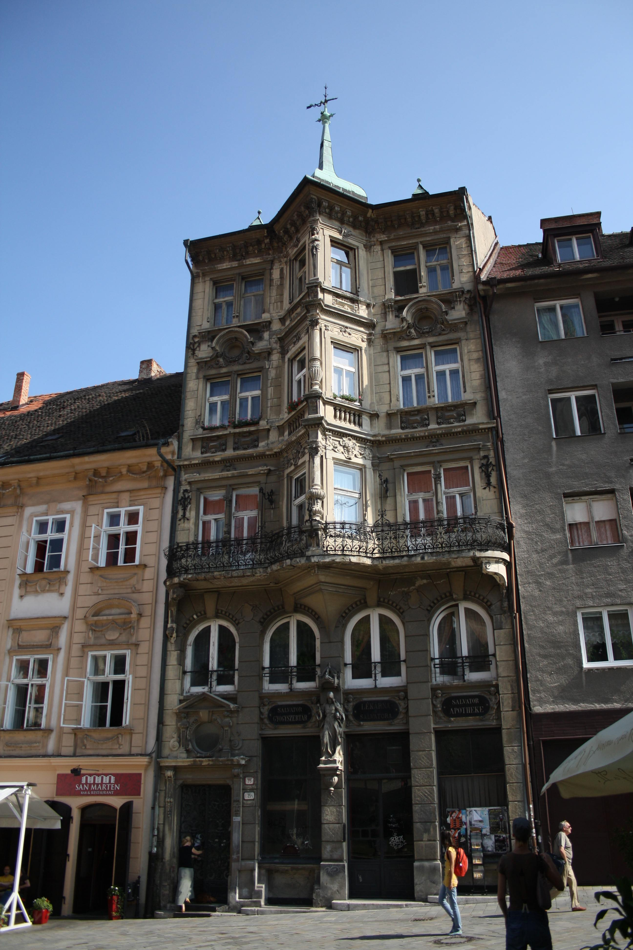 Apotheke Salvator at Panská street in Bratislava.